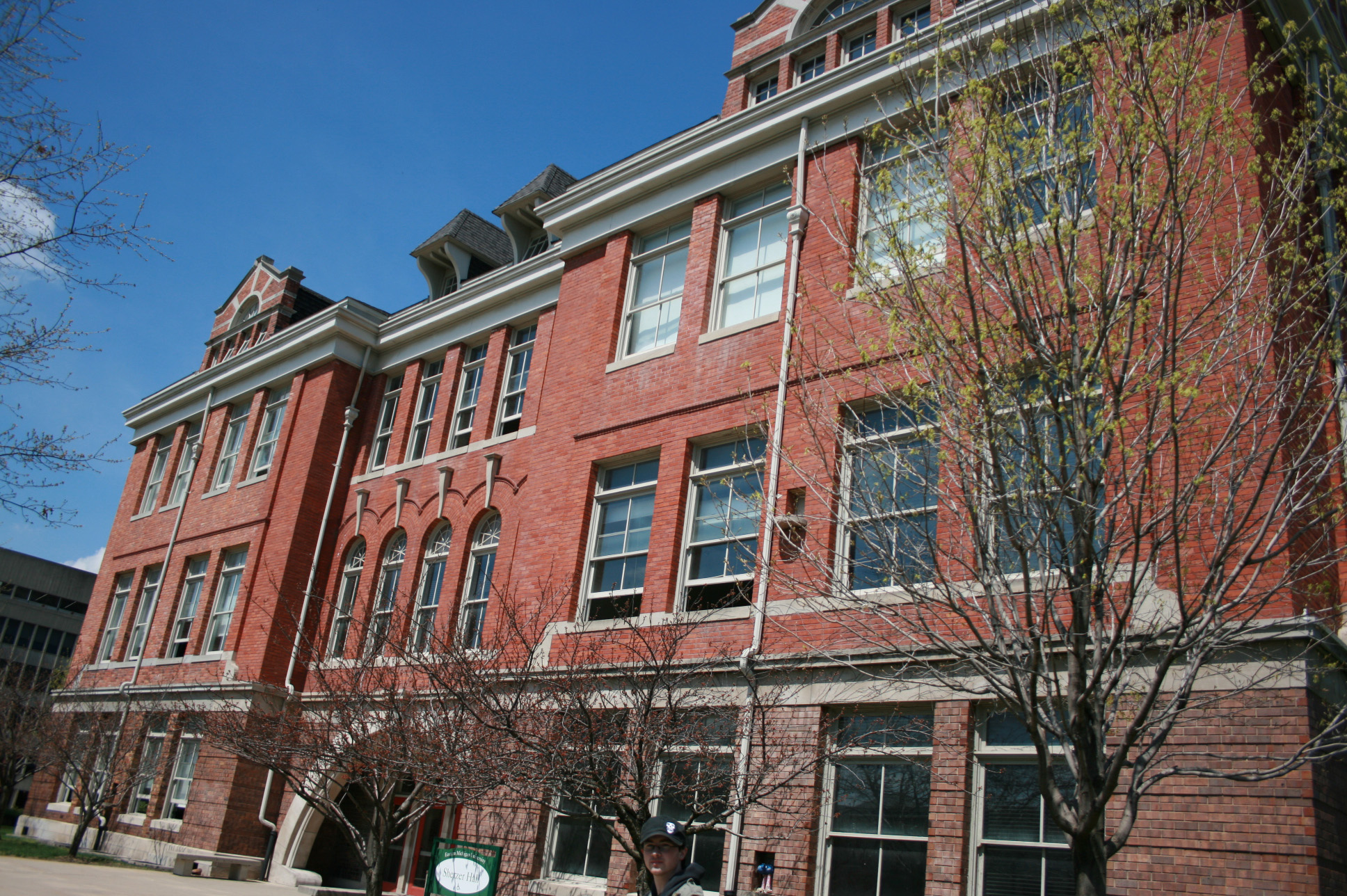 Sherzer Hall, Art and Astronomy building at EMU. Ten years after a fire nearly destroyed it.